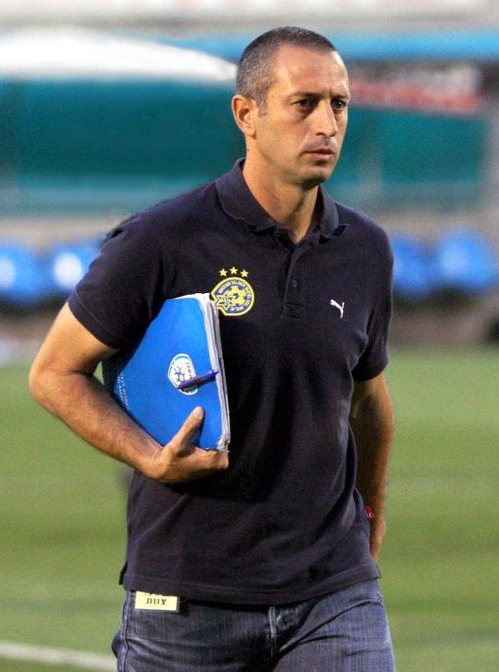 Amir Trugeman